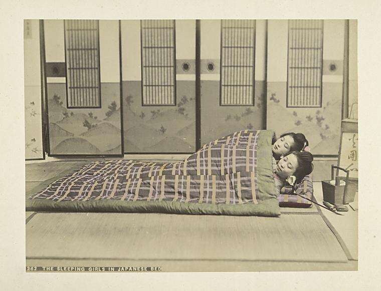 Digital ID: 109983. 189-? Source: [Album of photographs of Japan.] ( Repository: The New York Public Library. Photography Collection, Miriam and Ira D. Wallach Division of Art, Prints and Photographs. See more information about and others at Persistent URL: Rights Info: No known copyright restrictions; may be subject to third party rights (for more information